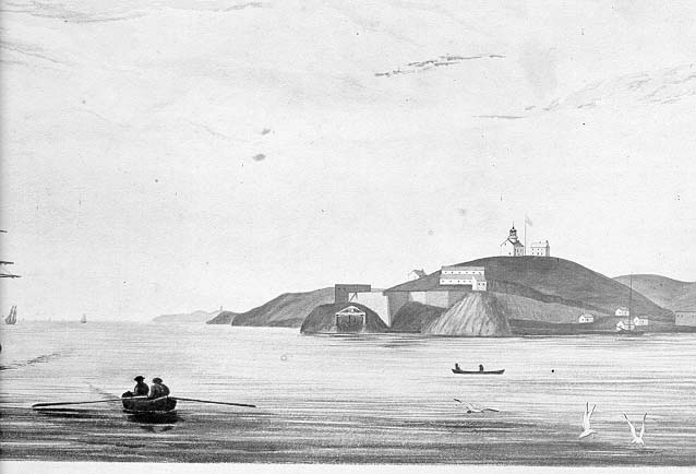 Public Domain statement here; Original 1854 Alcatraz Lighthouse